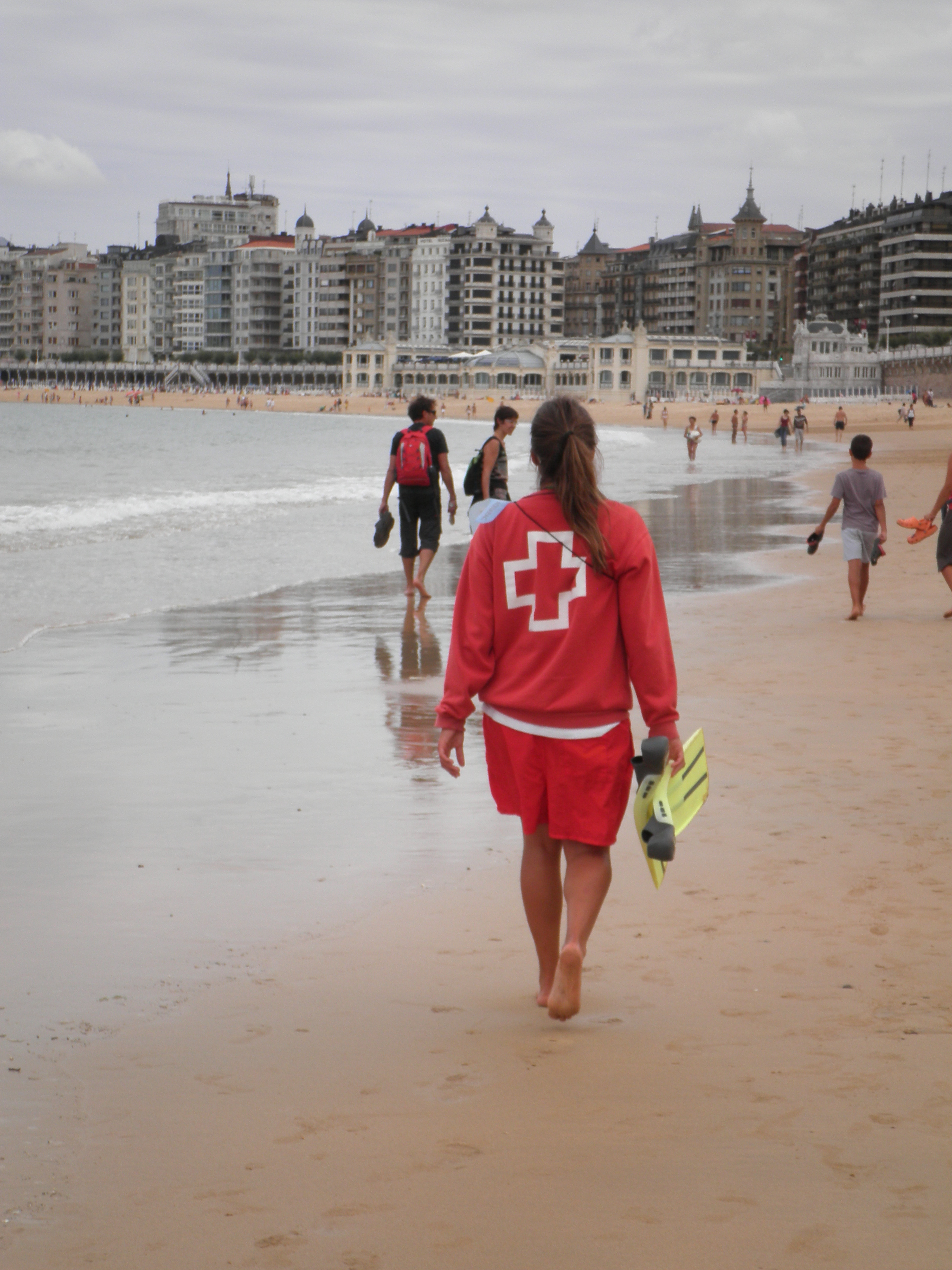 Lifeguard in Kontxa beach, Donostia.